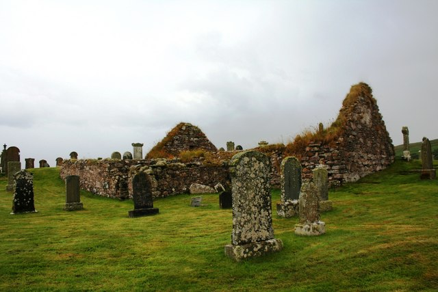 Kilnaughton Chapel The old chapel overlooking Kilnaughton Bay.